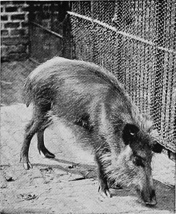 Javan warty pig